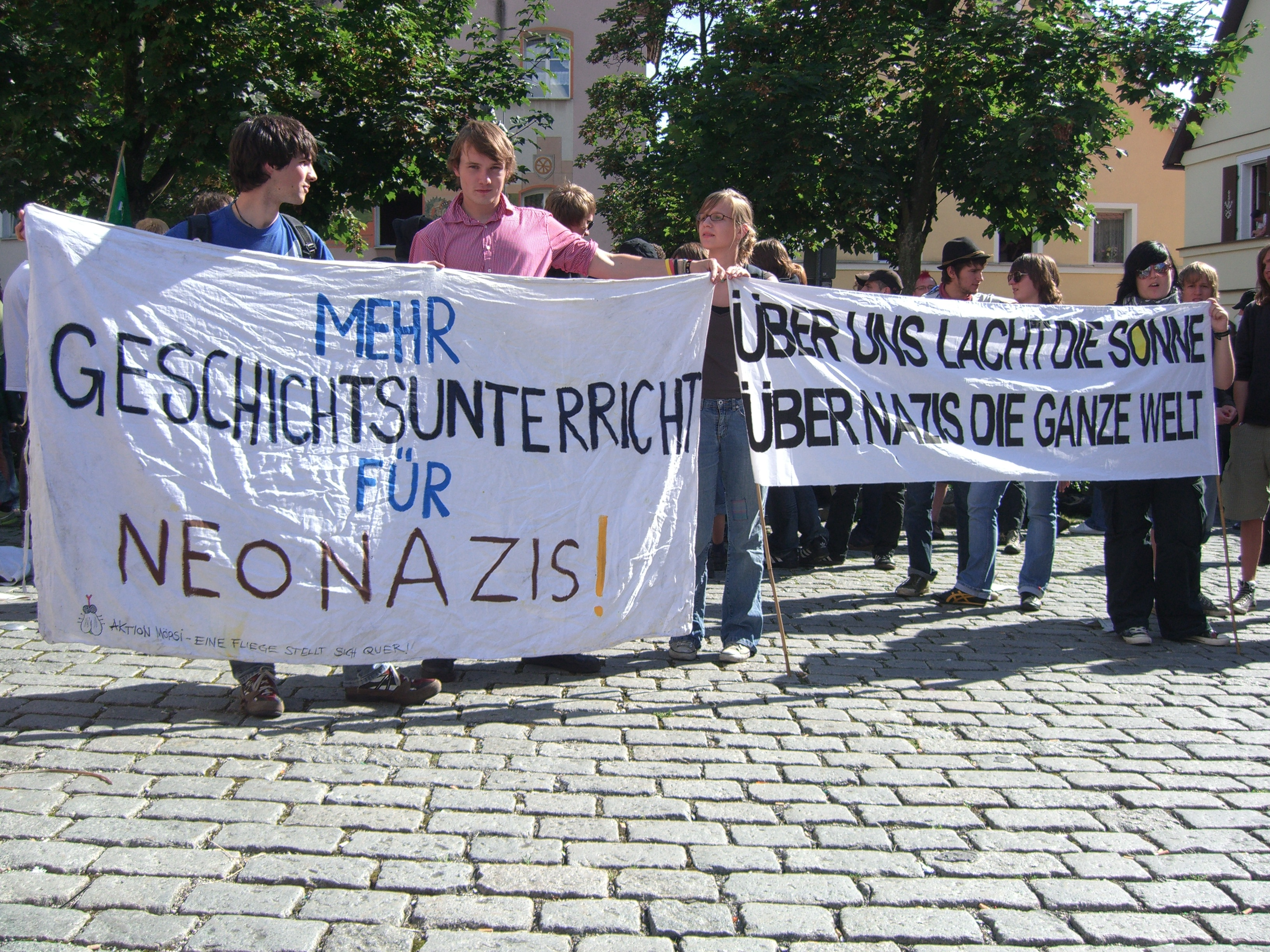 Banners displaying the texts "Mehr Geschichtsunterricht für Neonazis!" (More history lessons for neo-nazis!) and "Über uns lacht die Sonne - über Nazis die ganze Welt" (not literally translateable fun rhyme: The sun is smiling on us - but the whole world is laughing about nazis) at the anti nazi demonstration "Gräfenberg ist bunt" (Gräfenberg is colorful) at the market place of Gräfenberg in Upper Franconia (Bavaria, Germany) on 18. August 2007.